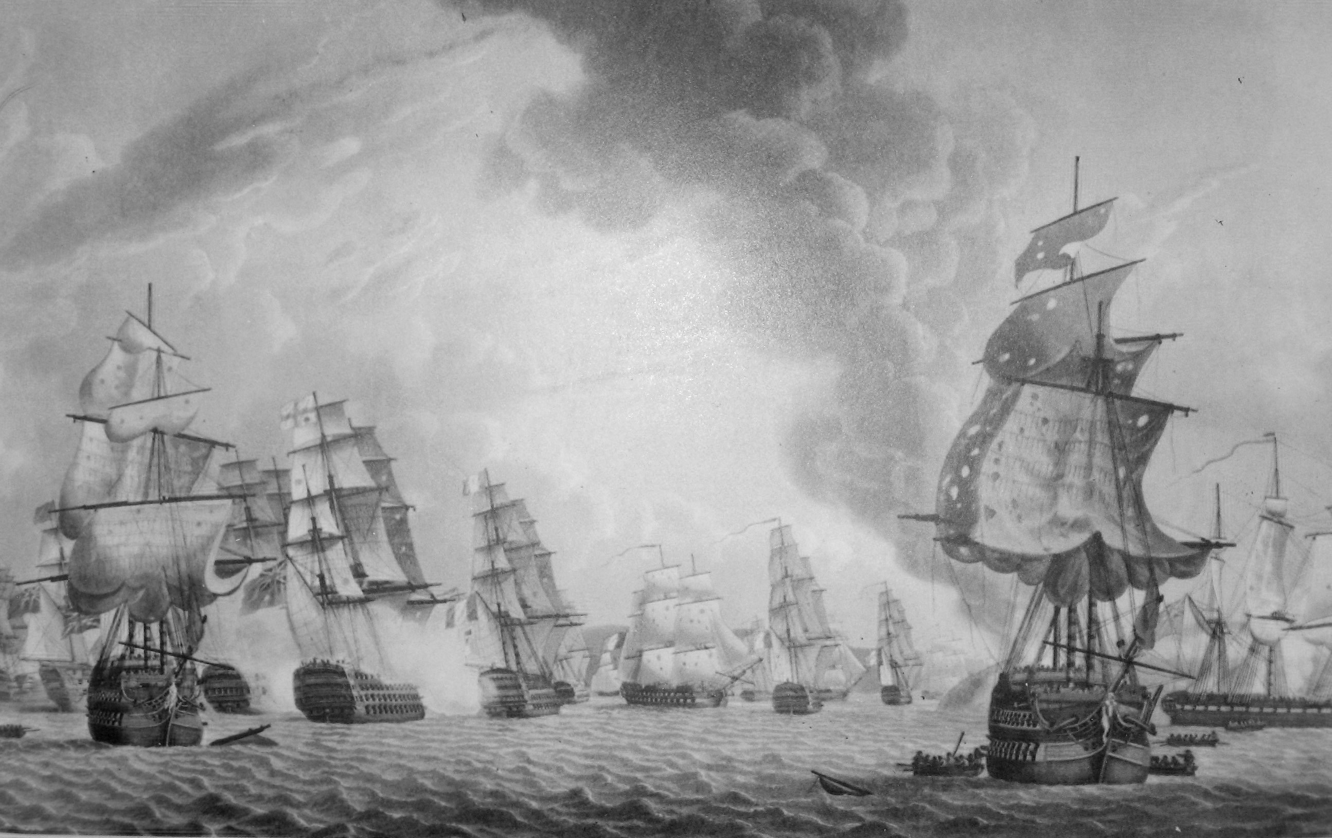 View of the Close of the Action Between the British and French Fleets, off Port L'Orient on the 23rd of June 1795; aquatint by Robert Dodd, from the original by Captain Alexander Becher, RN; published by the engraver 12 June 1812